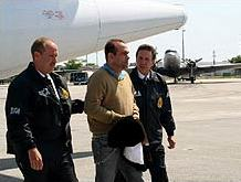 Salvatore Mancuso, former paramilitary leader and drug lord from Colombia